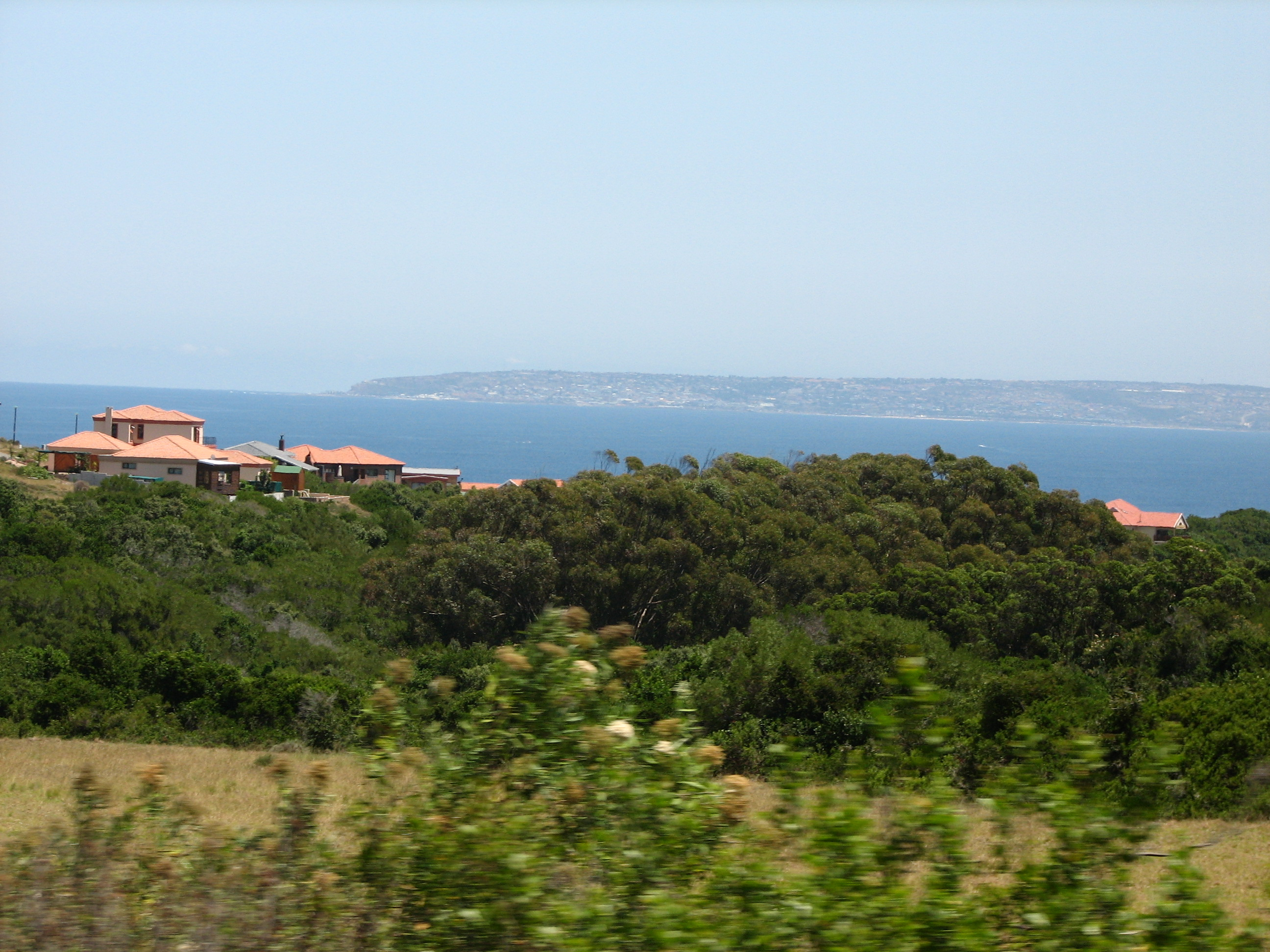 Mossel Bay, South Africa.